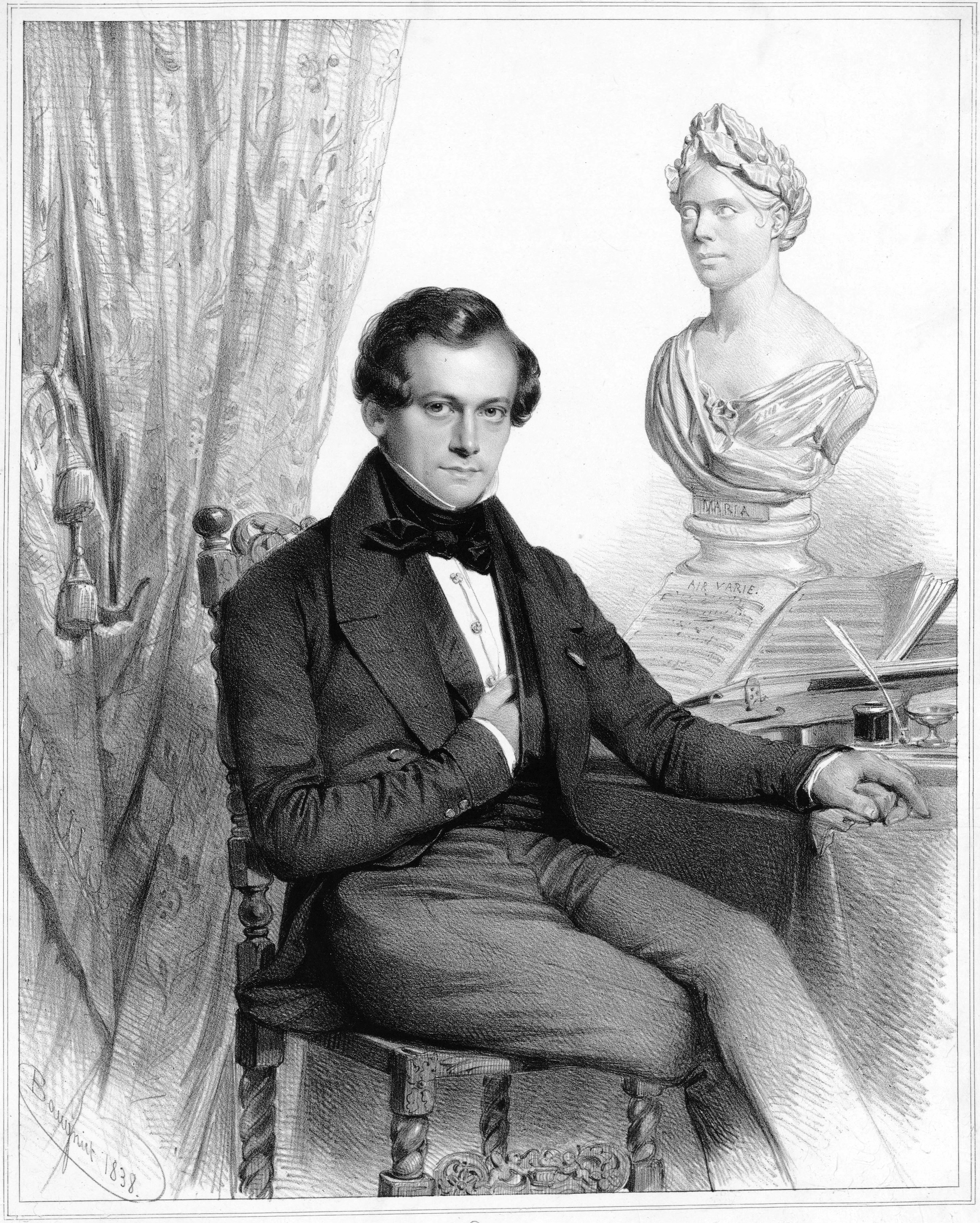 Belgian violinist and composer Charles-Auguste de Bériot (1802-1870) by Charles Baugniet (1814-1886).